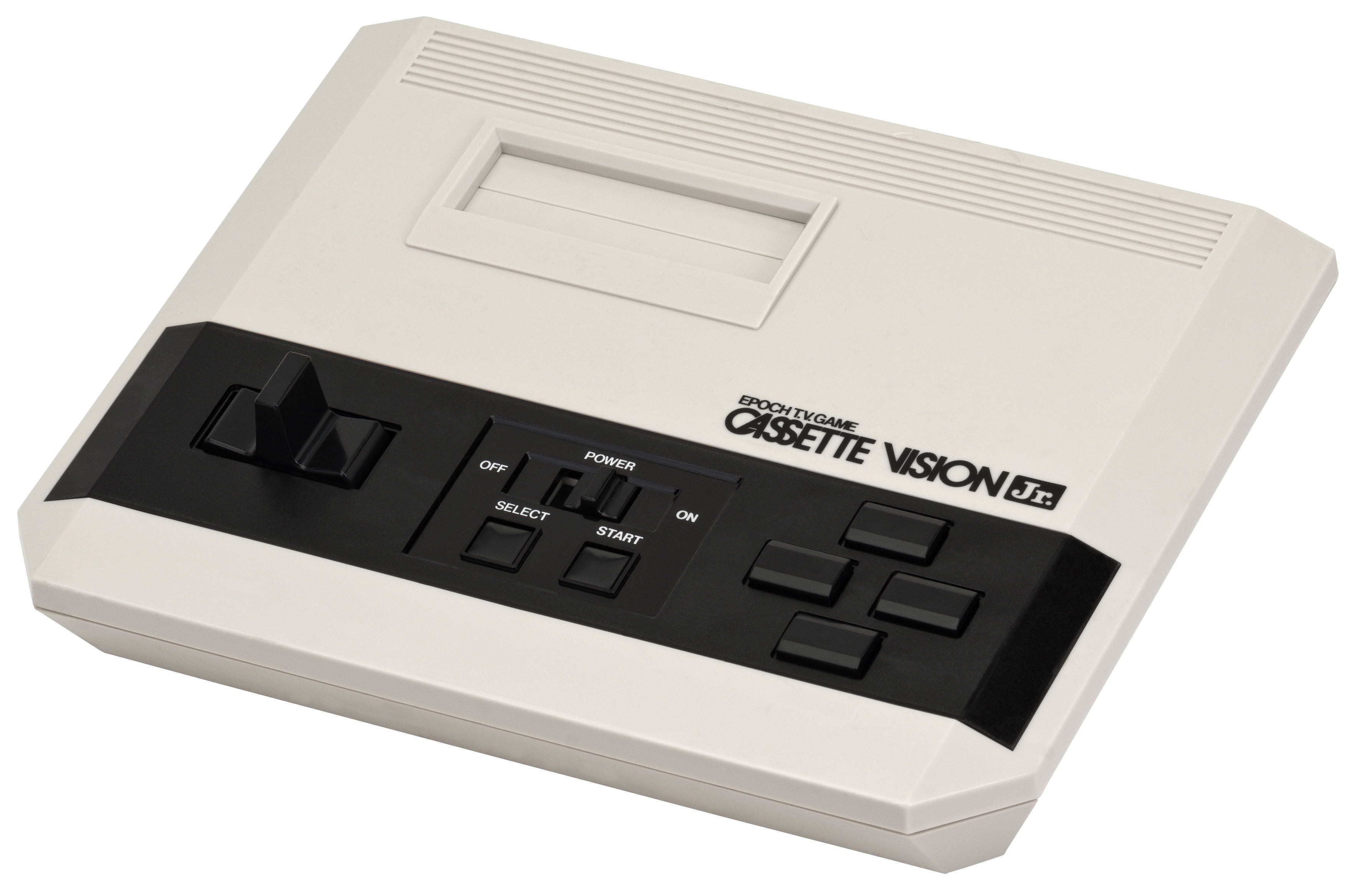 The Epoch Cassette Vision Jr., a video game console released exclusively in Japan in 1983. The Cassette Vision Jr. is a smaller and minimized version of the original Cassette Vision.